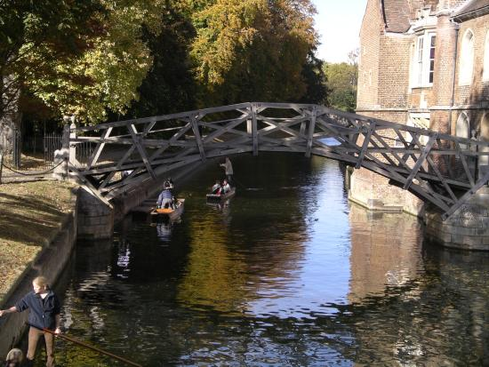 Photograph of the Mathematical Bridge over the River Cam at the University of Cambridge, showing punters on the river.